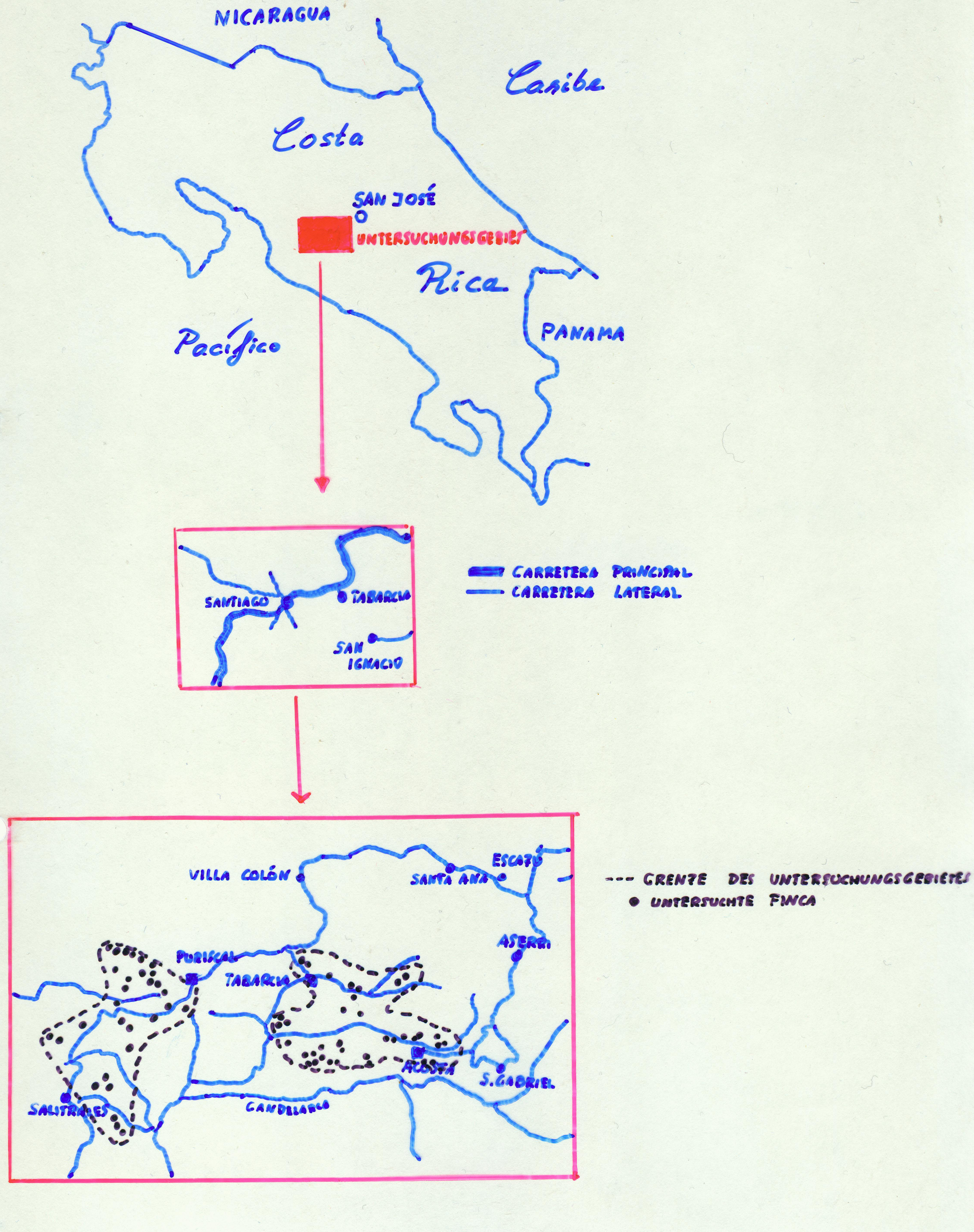 hand-made map of canton Acosta-Puriscal / Costa Rica